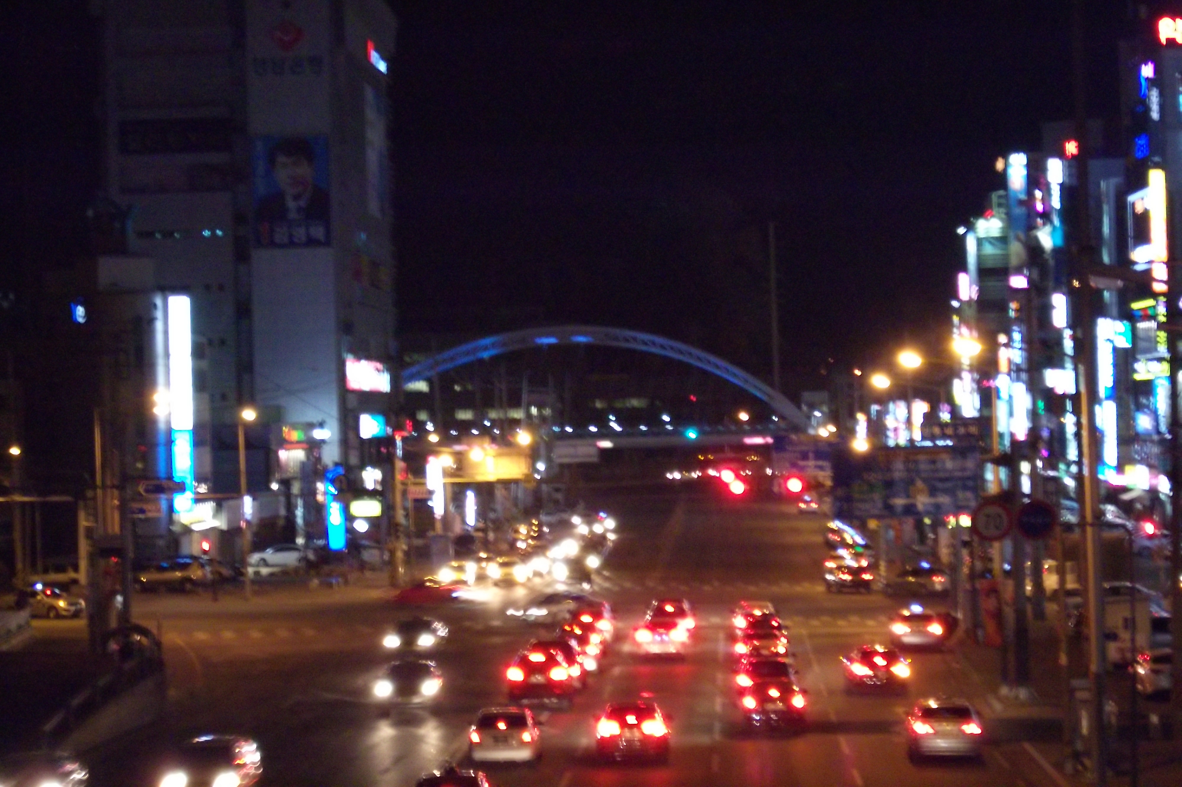 Gumi-si city at night. This has been taken from a foot-over bridge in Indong area